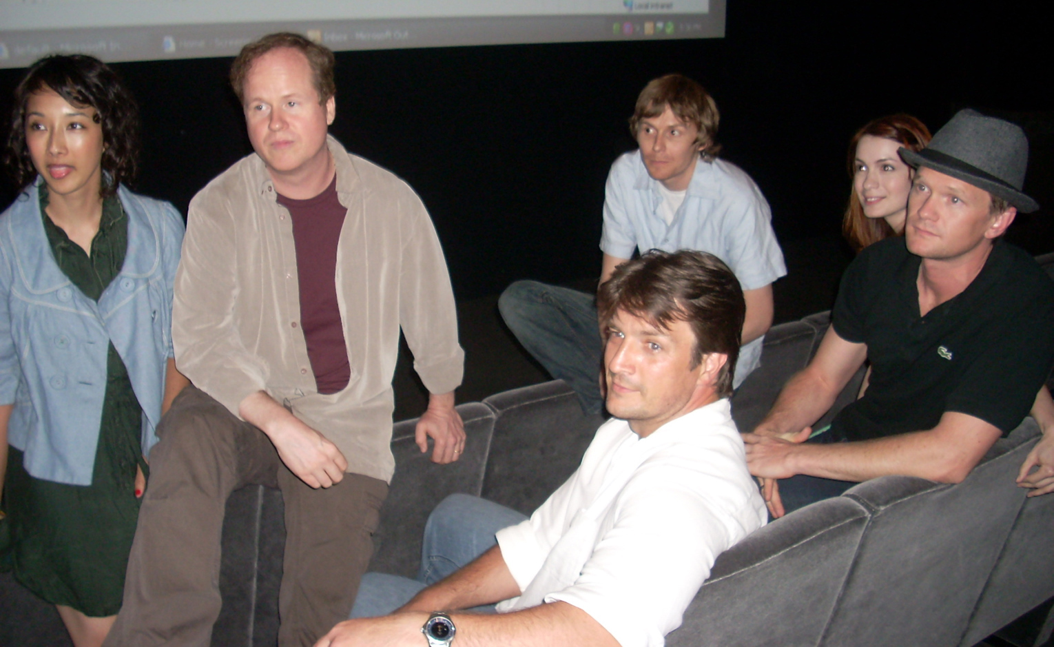 Maurissa Tancharoen, Joss Whedon, Nathan Fillion, Jed Whedon, Neil Patrick Harris, Felicia Day, CAA Theater screening of "Dr. Horrible's Sing-Along Blog," July 10, 2008